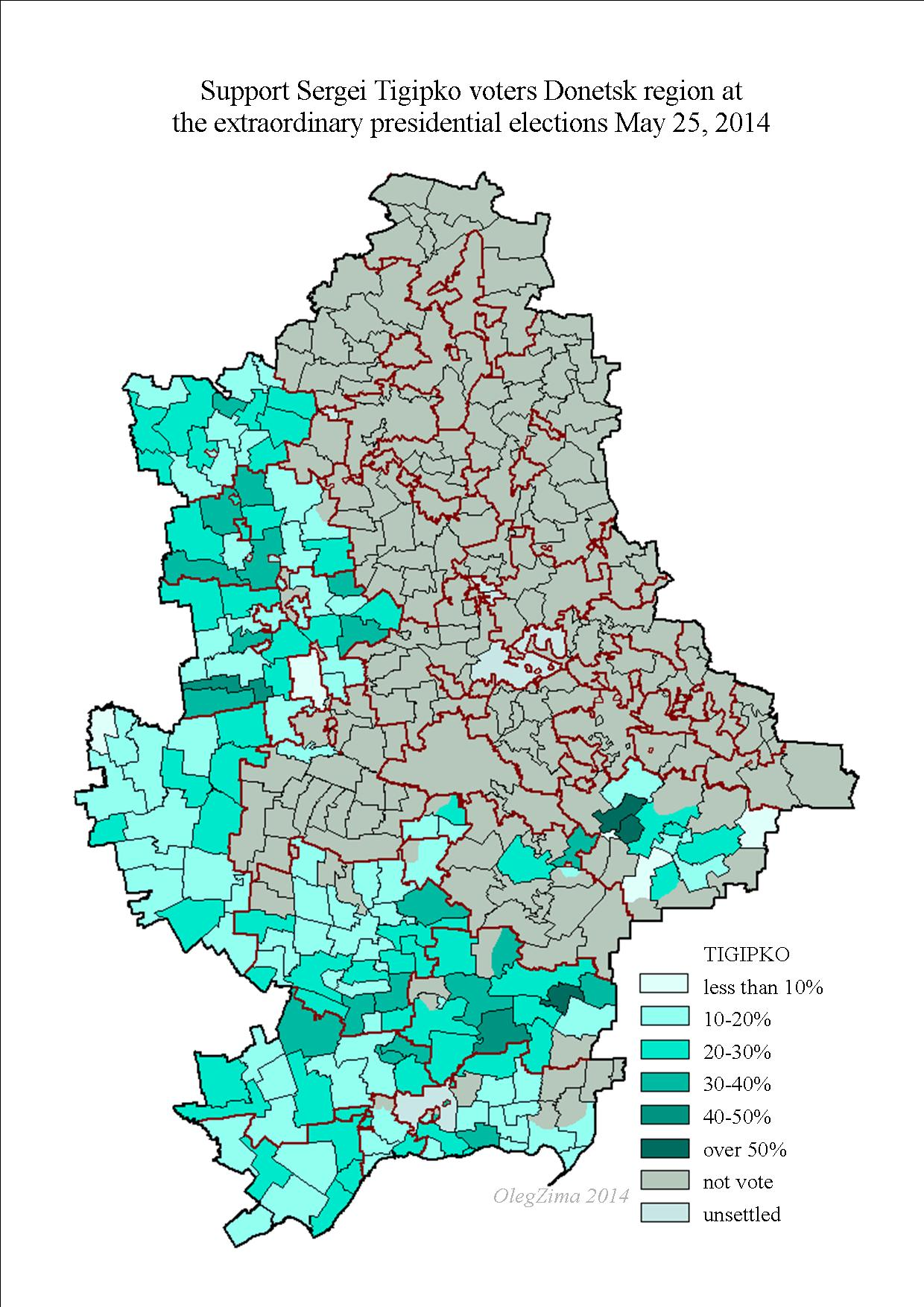 Support Sergei Tigipko voters Donetsk region at the extraordinary presidential elections May 25, 2014